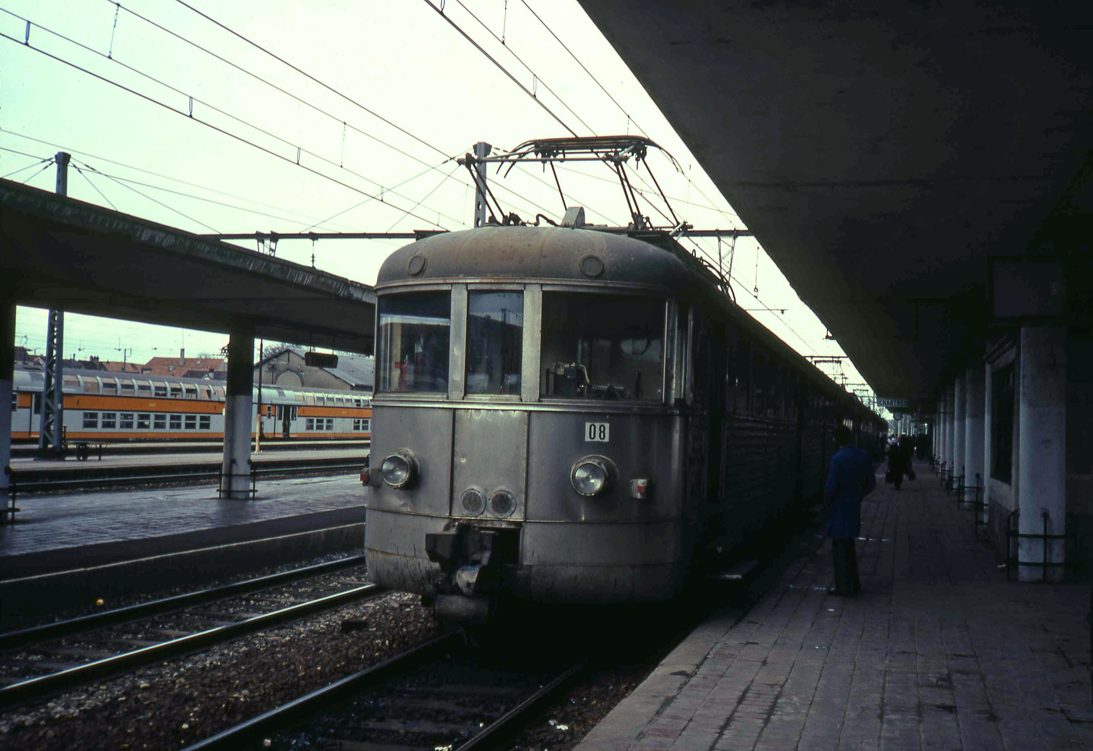 Old type "budd" of electric multiple unit in Chartres.